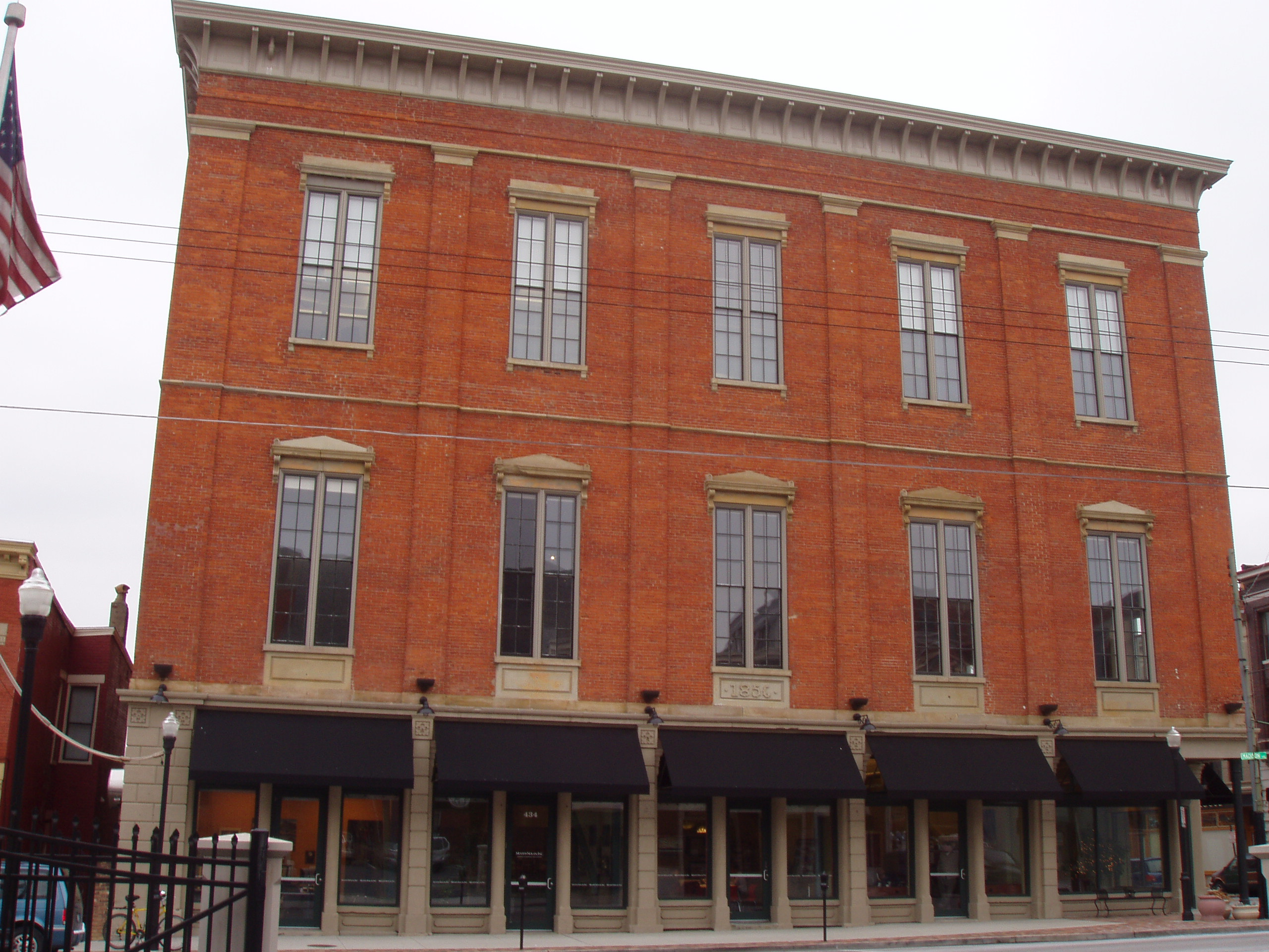 Historic Odd Fellows Hall Restored Covington, KY